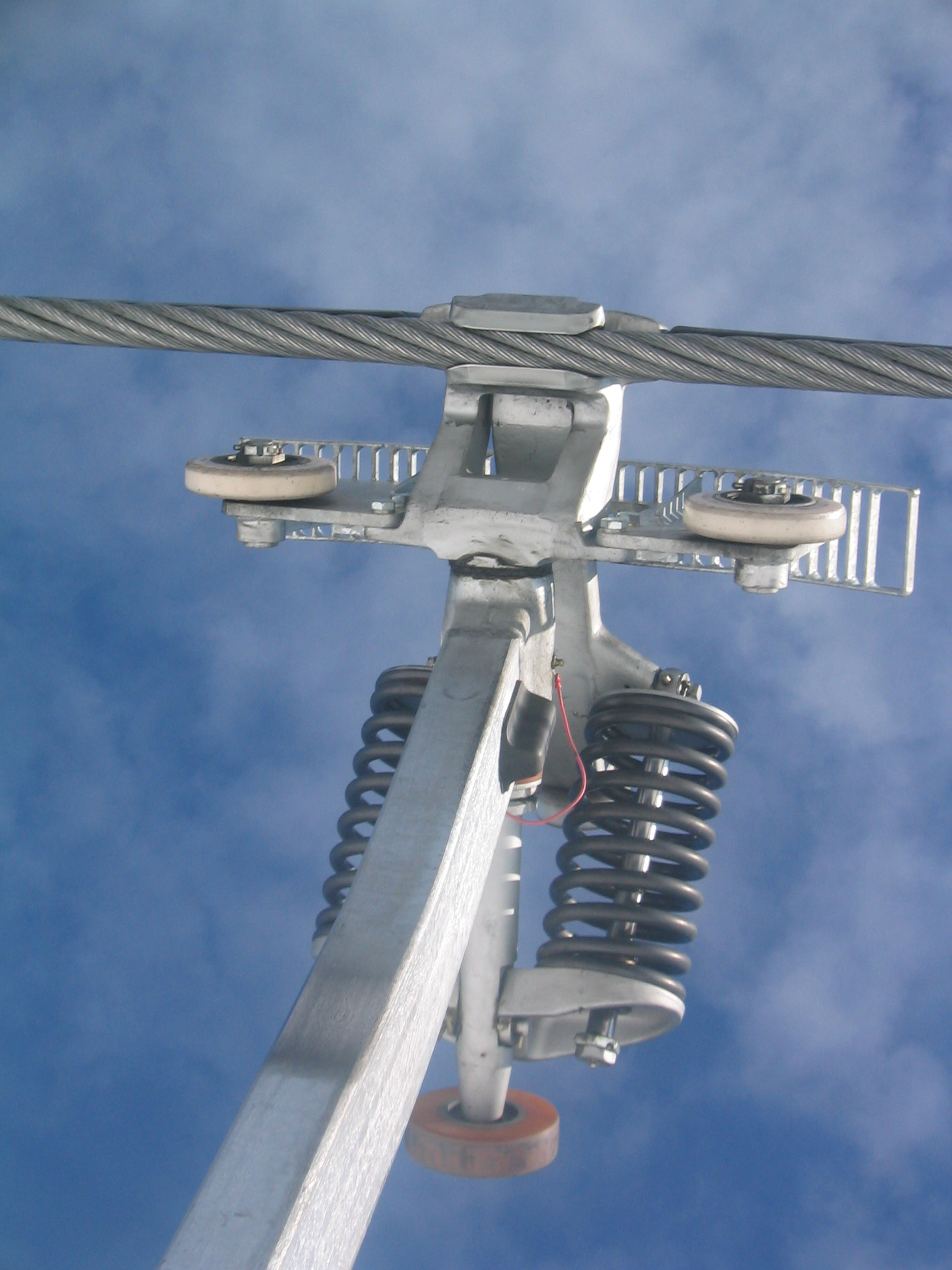 Picture shows the gondola mounting of a small ropeway, for example a gondola lift or a chairlift. The mounting consists of a metal crank which is clamped by two steel springs. In normal lift mode the crank fixes the gondola at the steel rope (left from top to bottom of the picture). When entering a terminal, the clamp is opened by mechanical pressing.